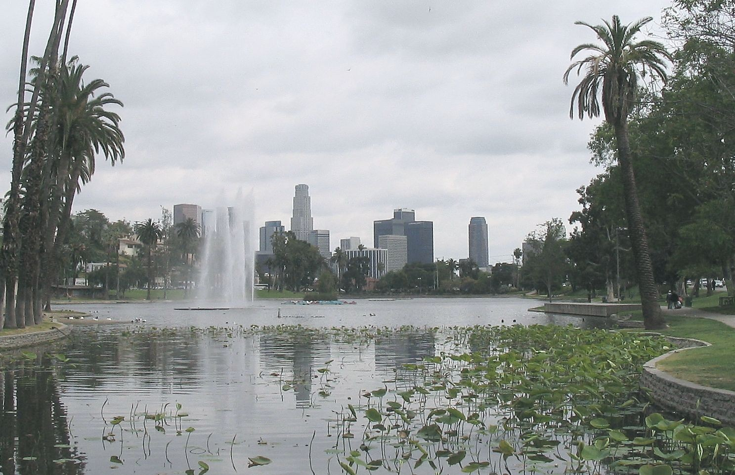 The skyline of downtown Los Angeles, California, seen from Echo Park, Los Angeles, California. April 2005. English Wikipedia